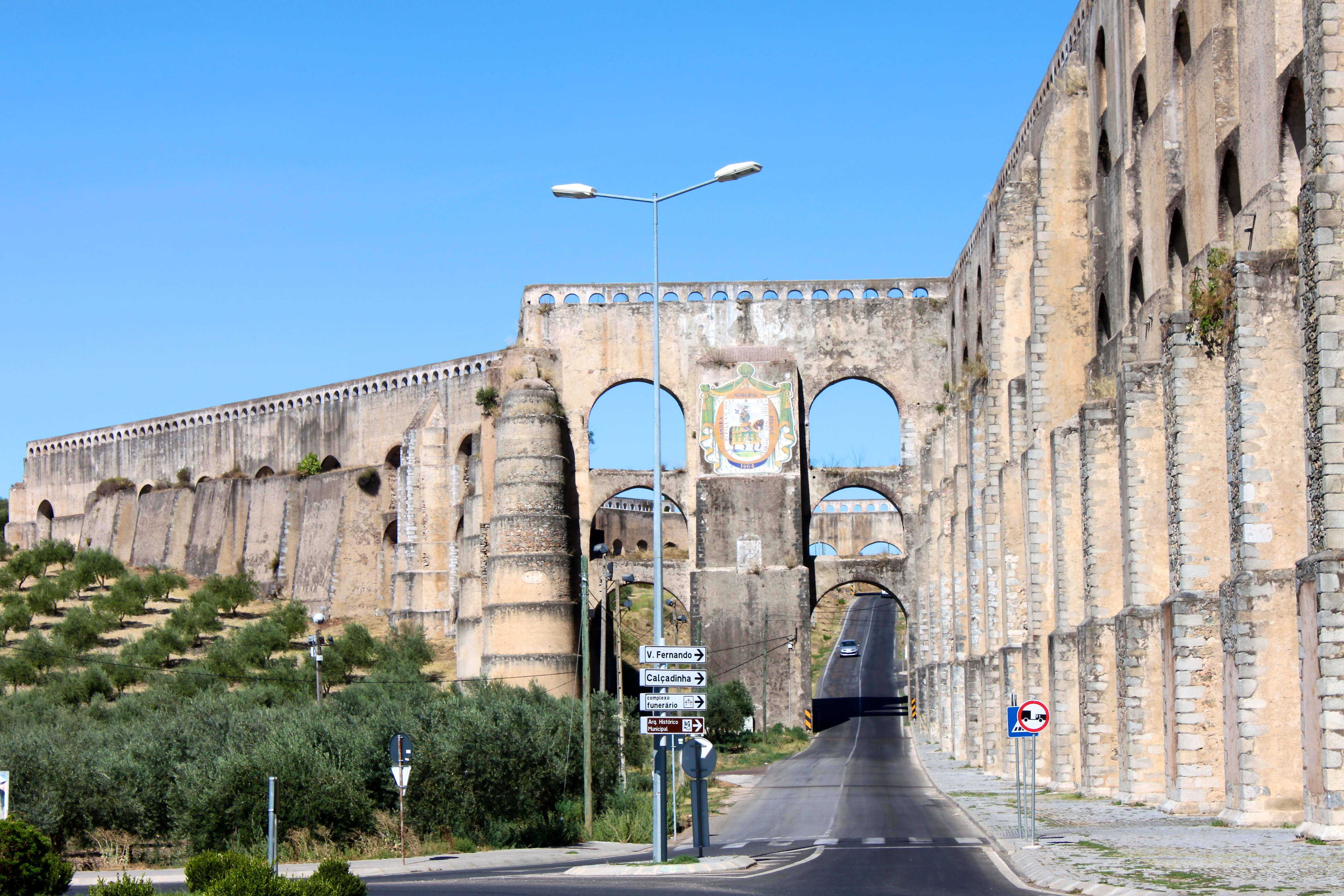 This file was uploaded for Wiki Loves Monuments in Portugal with the unique identifier 70195.